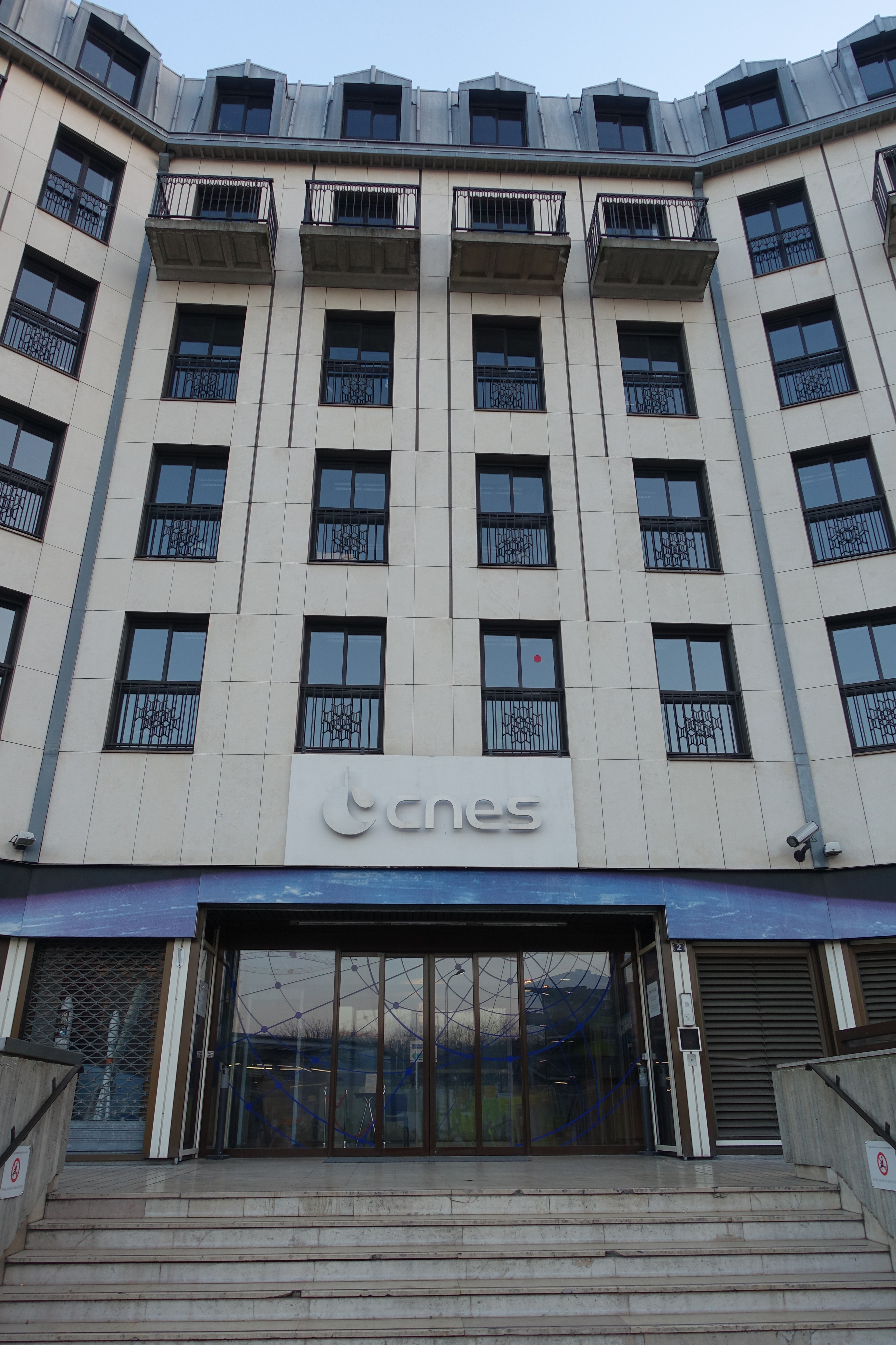 CNES @ Paris